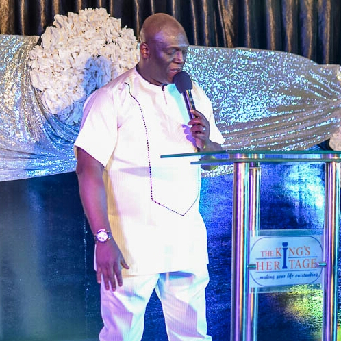 Sammie Okposo perforrming at the Kings Heritage Church